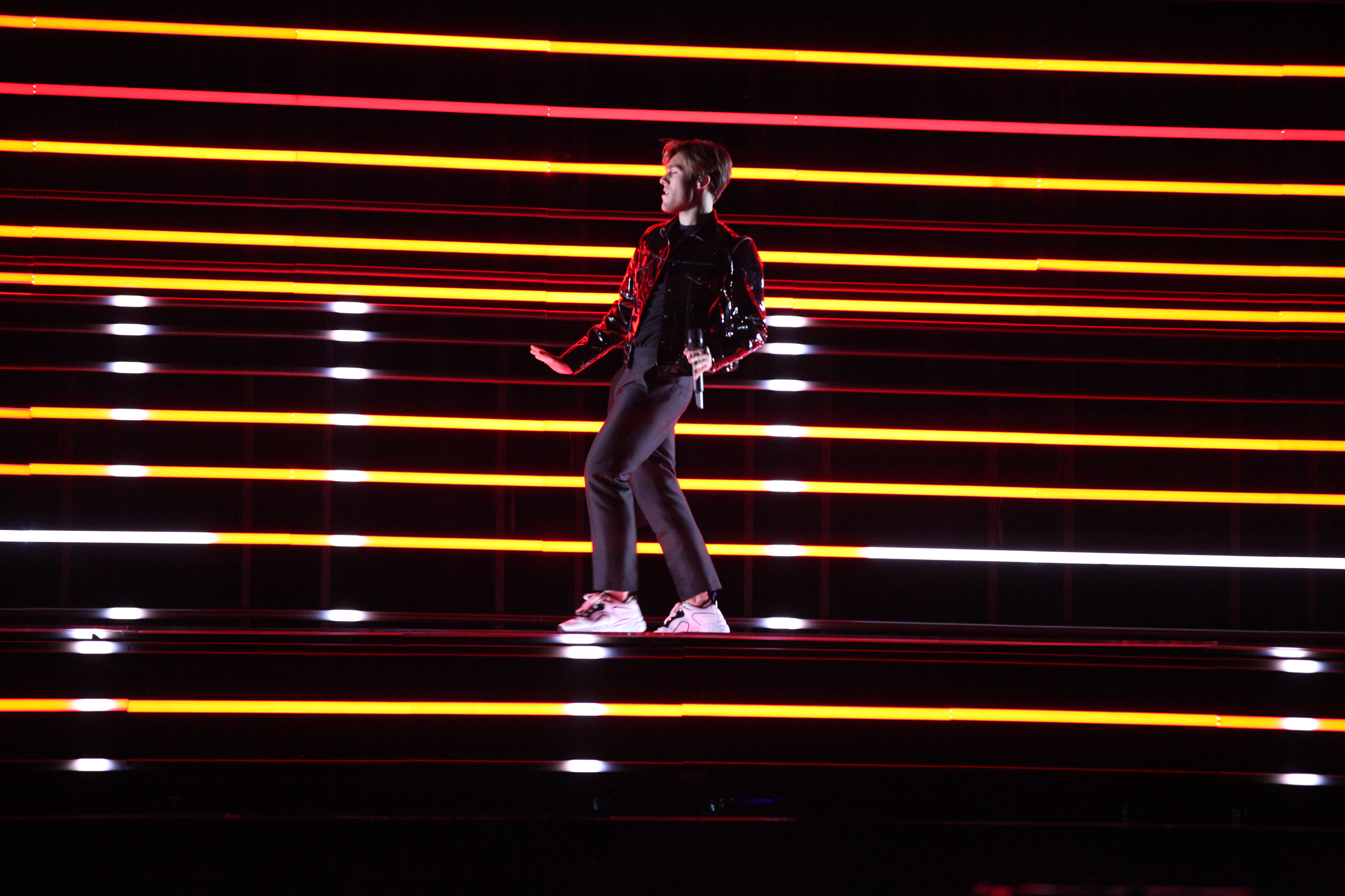 Benjamin Ingrosso representing Sweden with the song "Dance You Off" during a rehearsal before the second semi final of the Eurovision Song Contest 2018 in Lisbon.